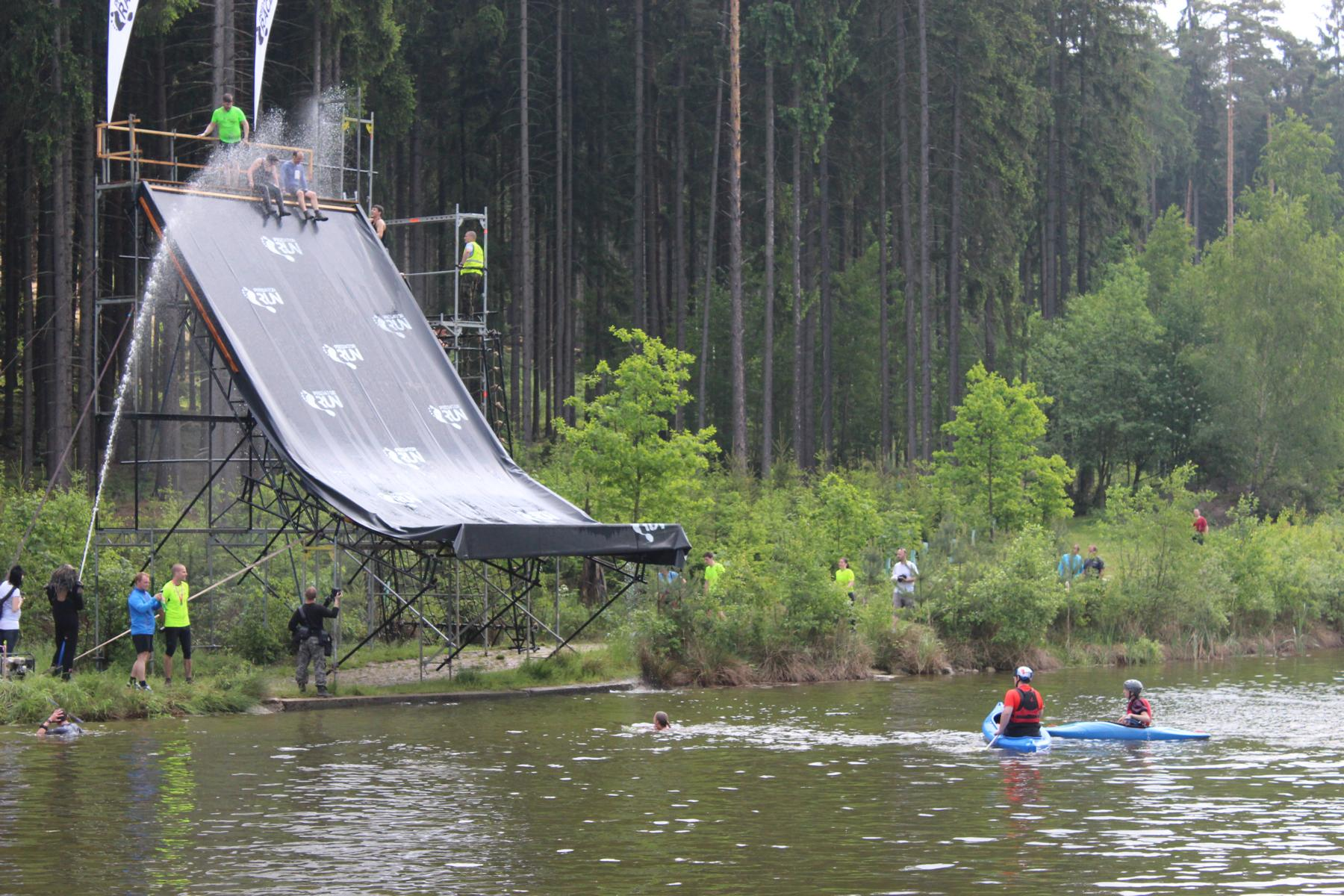 Predator Run